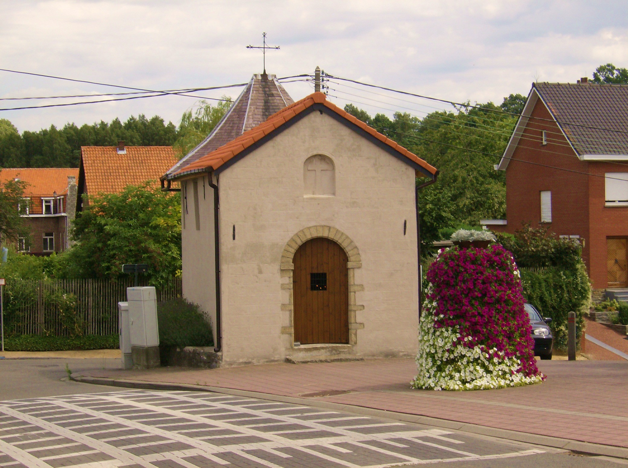 "Cruysboom" chapel, Overijse, Belgium